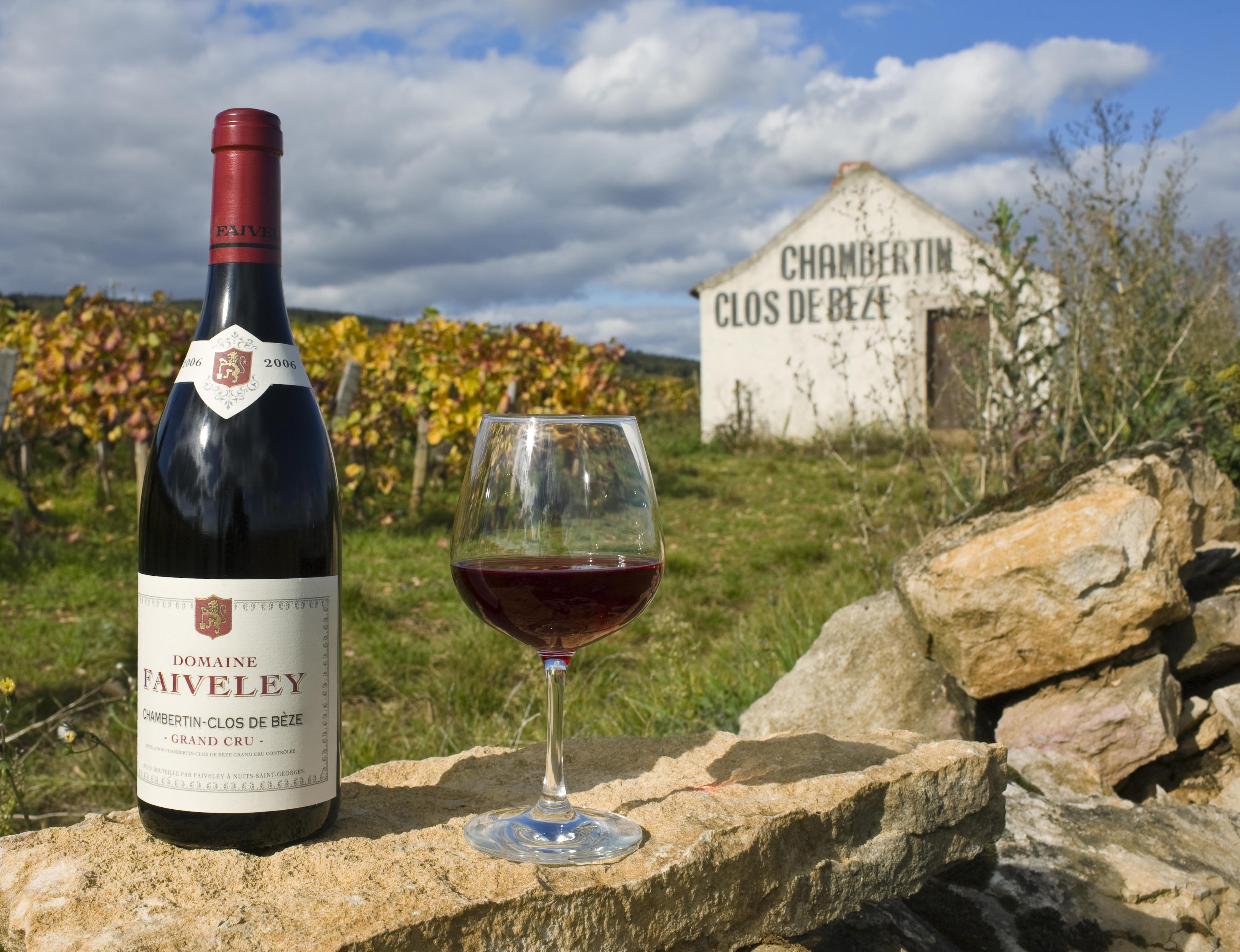 French Pinot noir wine from Domaine Faiveley in the Burgundy wine region of Cote de Nuits